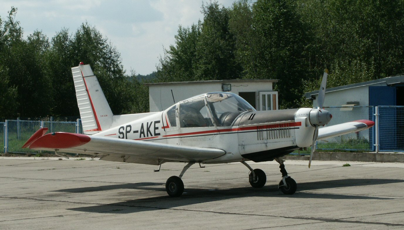 Zlin Z42M sports plane of Aeroklub Kielecki (nr 0170), Kielce-Masłów airfield